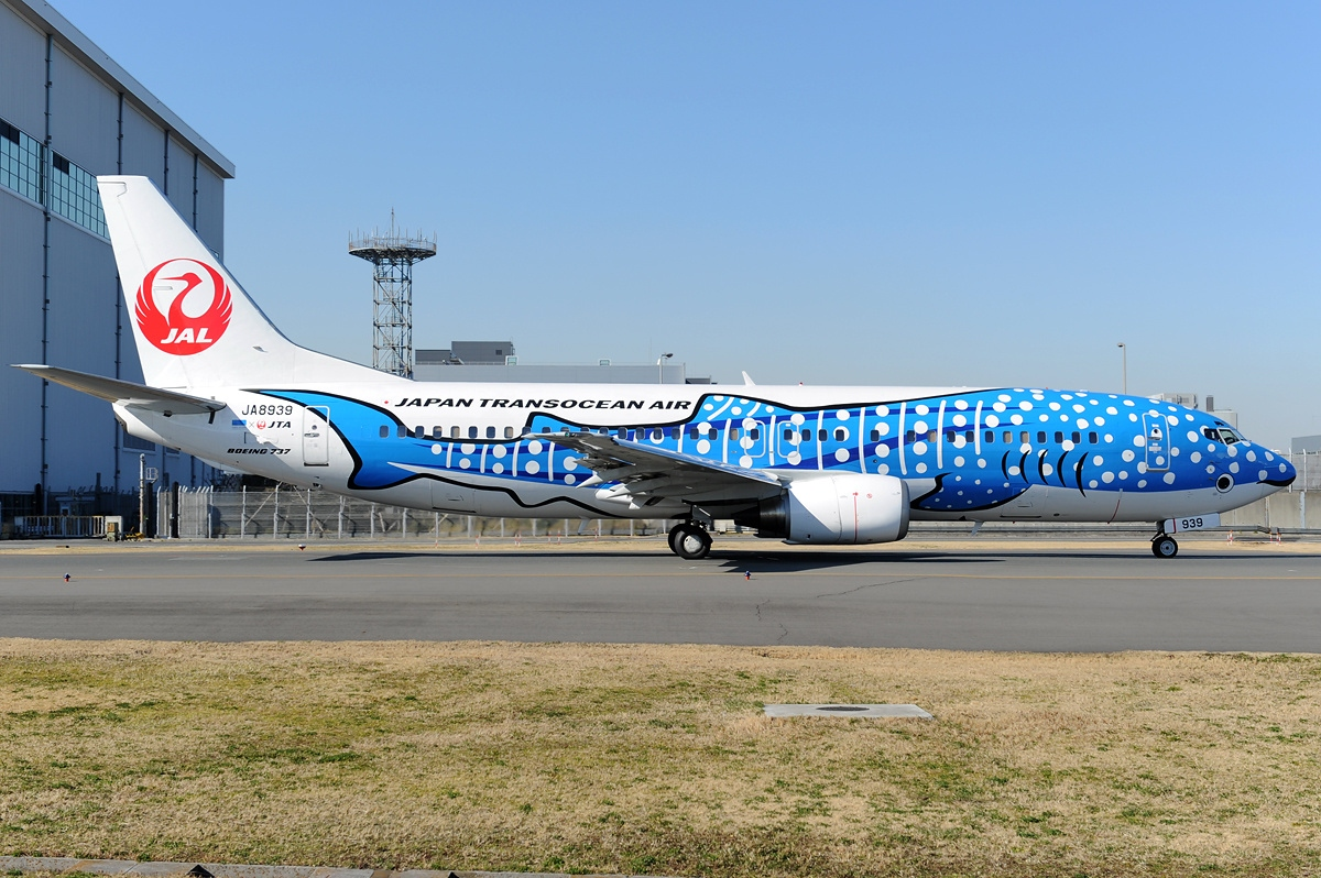 Whale shark Jet as JTA 73 (From RJTT to ROIG).